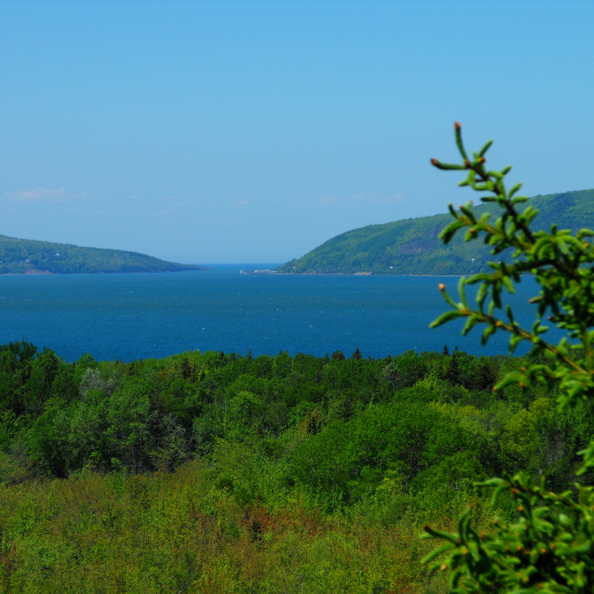 Digby Gut as viewed across the Annapolis Basin